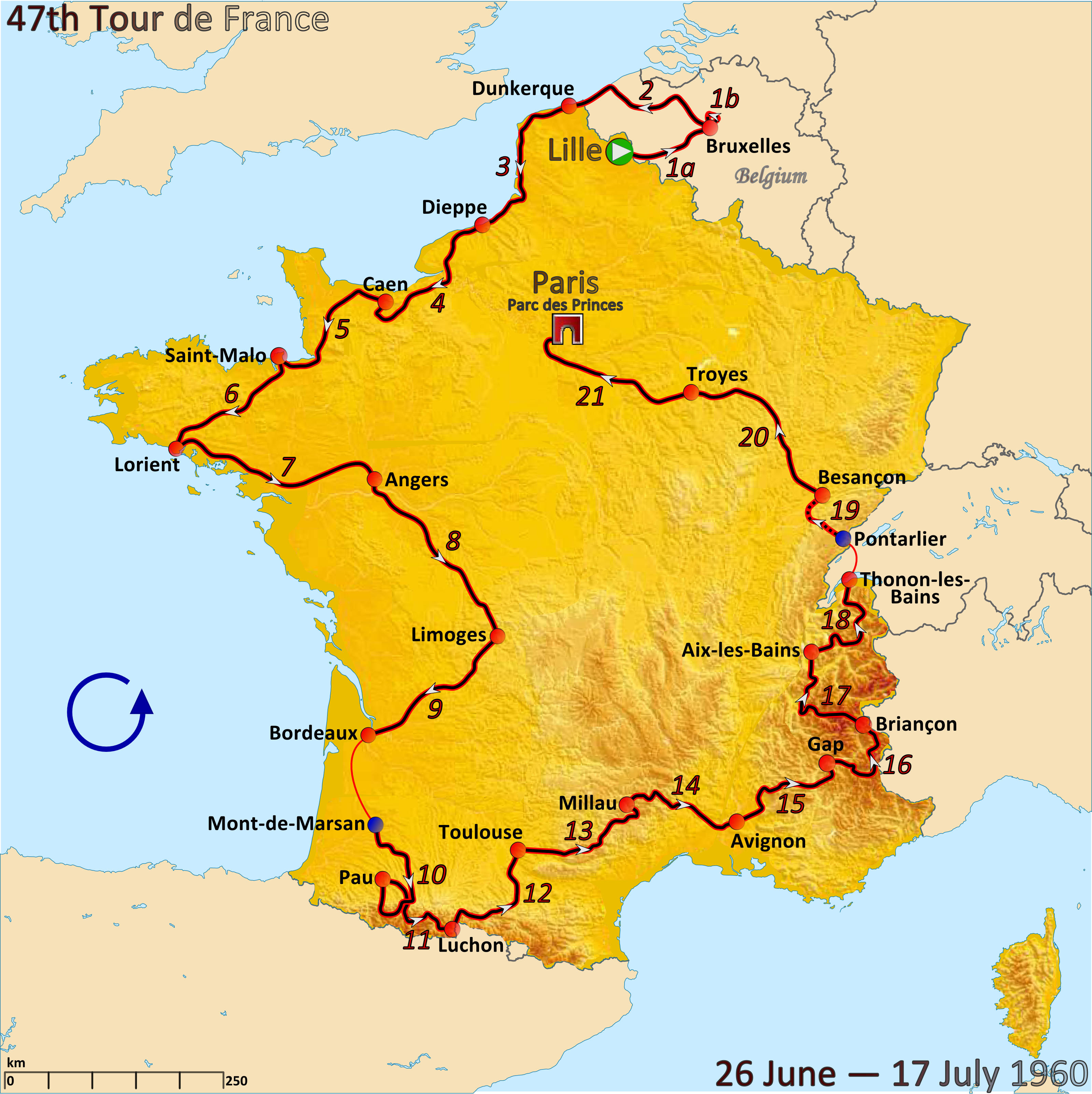 Map of the 1960 Tour de France created in Inkscape using accurate stage maps from touratlas.nl